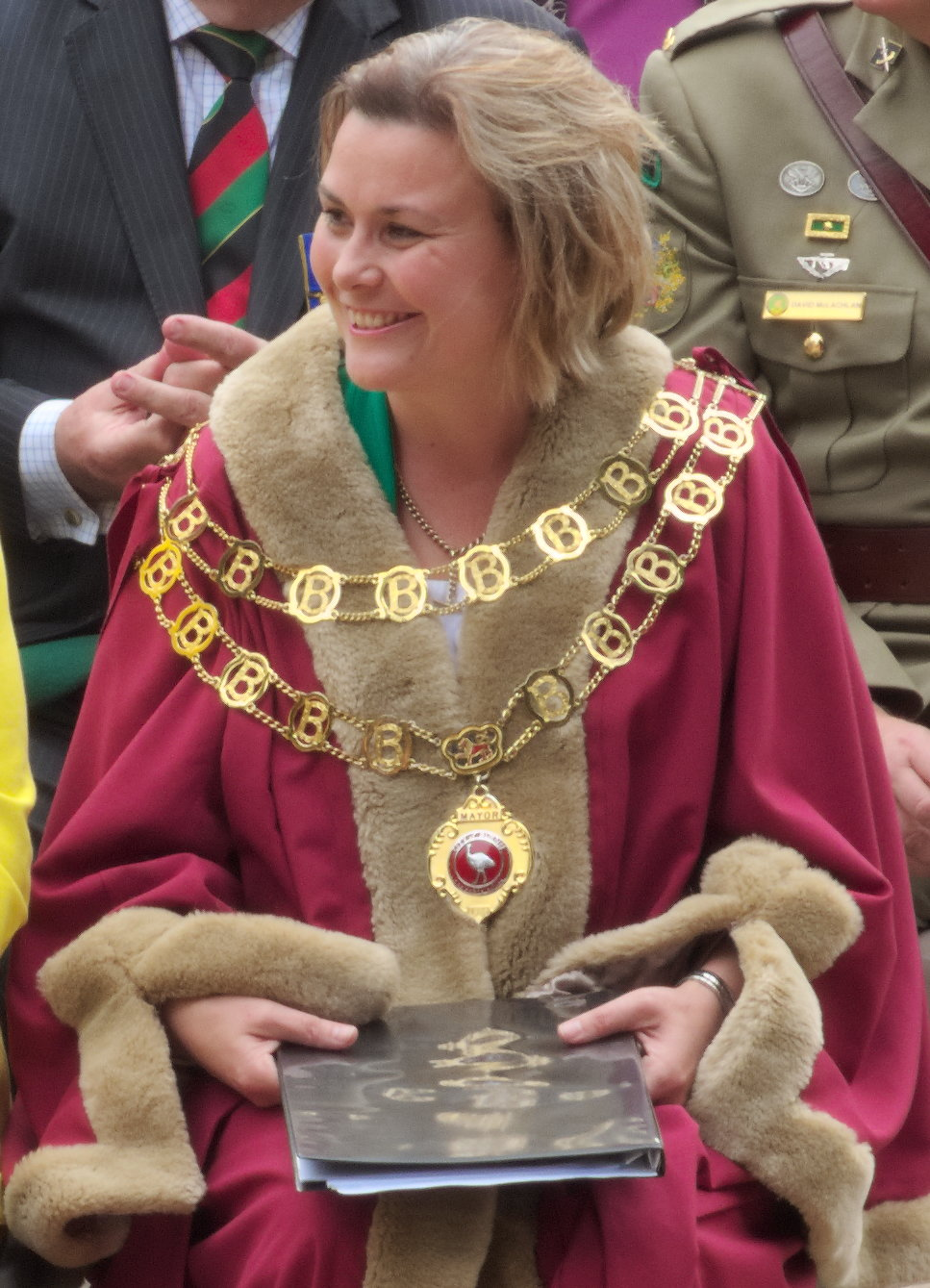 Anita Dow, mayor of Burnie, Tasmania, at the unveiling ceremony for memorial walls and Corporal Cameron Baird's plinth in Burnie.